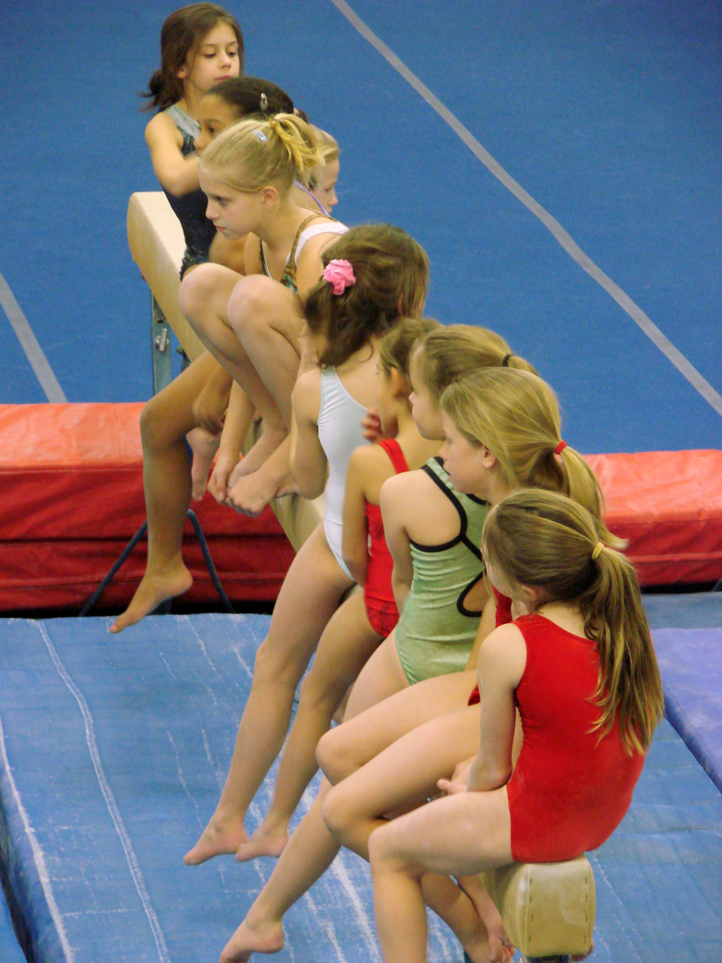 level 5 girls on beam